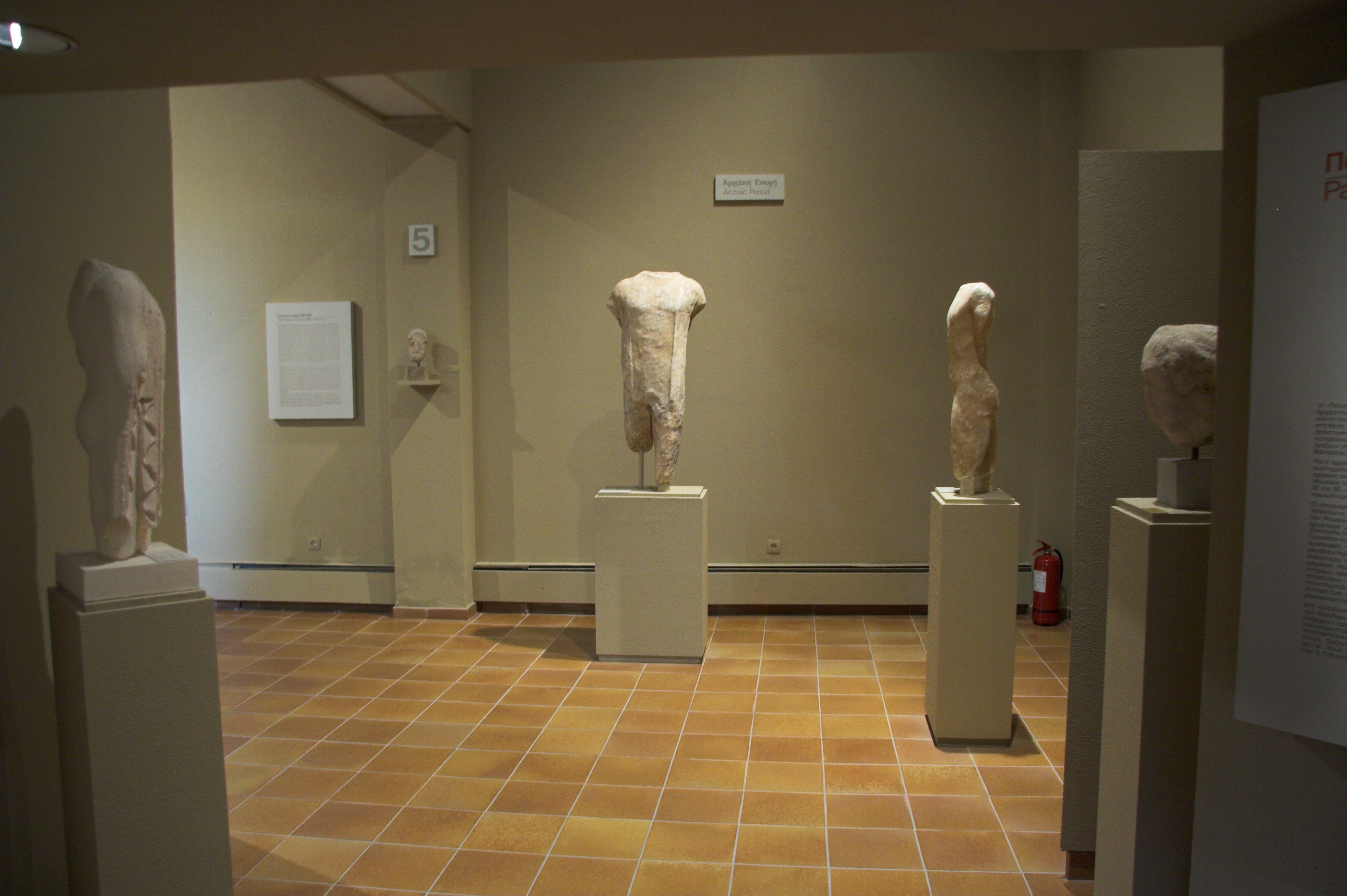 Hall of archaic statues.Archeologické muzeum na Andru (Chóra).